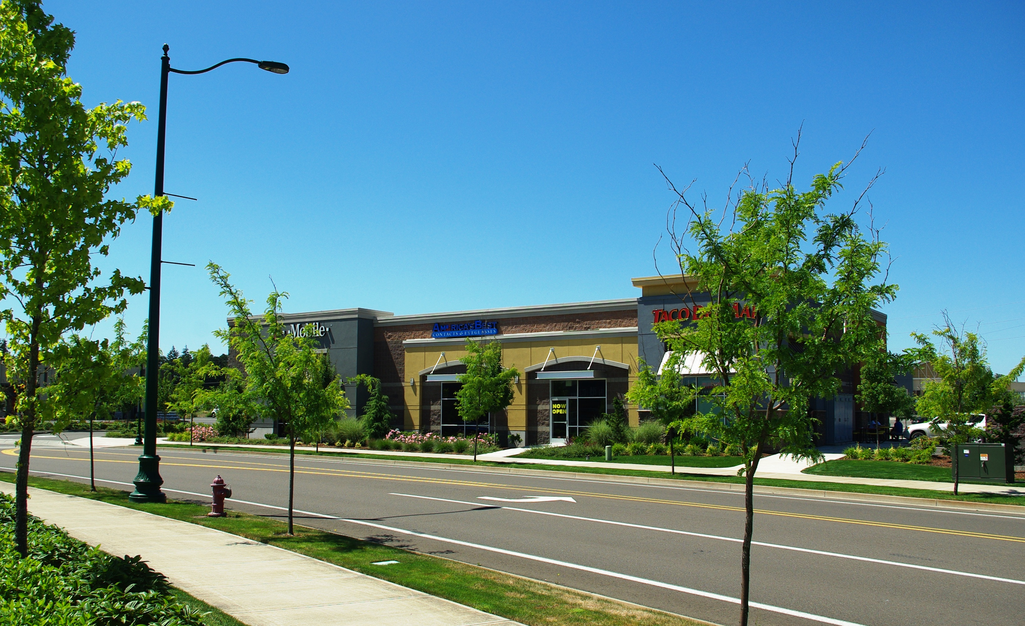 Keizer Station shopping center in Keizer, Oregon, USA